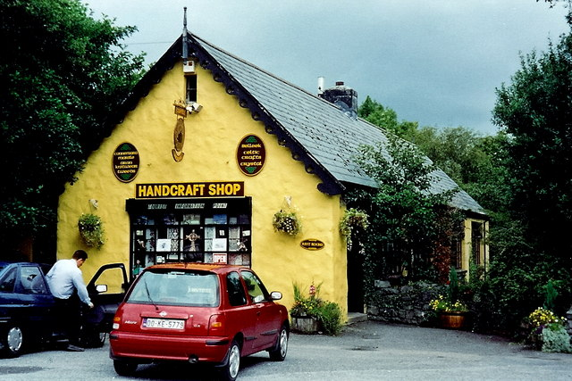 Moycullen - Handcraft shop, near to Maigh Cuilinn, Drimmavohaun, Clydagh, Killagoola and Leagaun, Galway, Ireland. Visited by John Wayne during the filming of "The Quiet Man". A photo was taken of him with others during this visit and is on display within the shop.